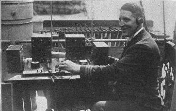 Commander R.F. McConnell in the chartroom of the USS Semmes listening to navigation signals from the Ambrose Channel pilot cable.